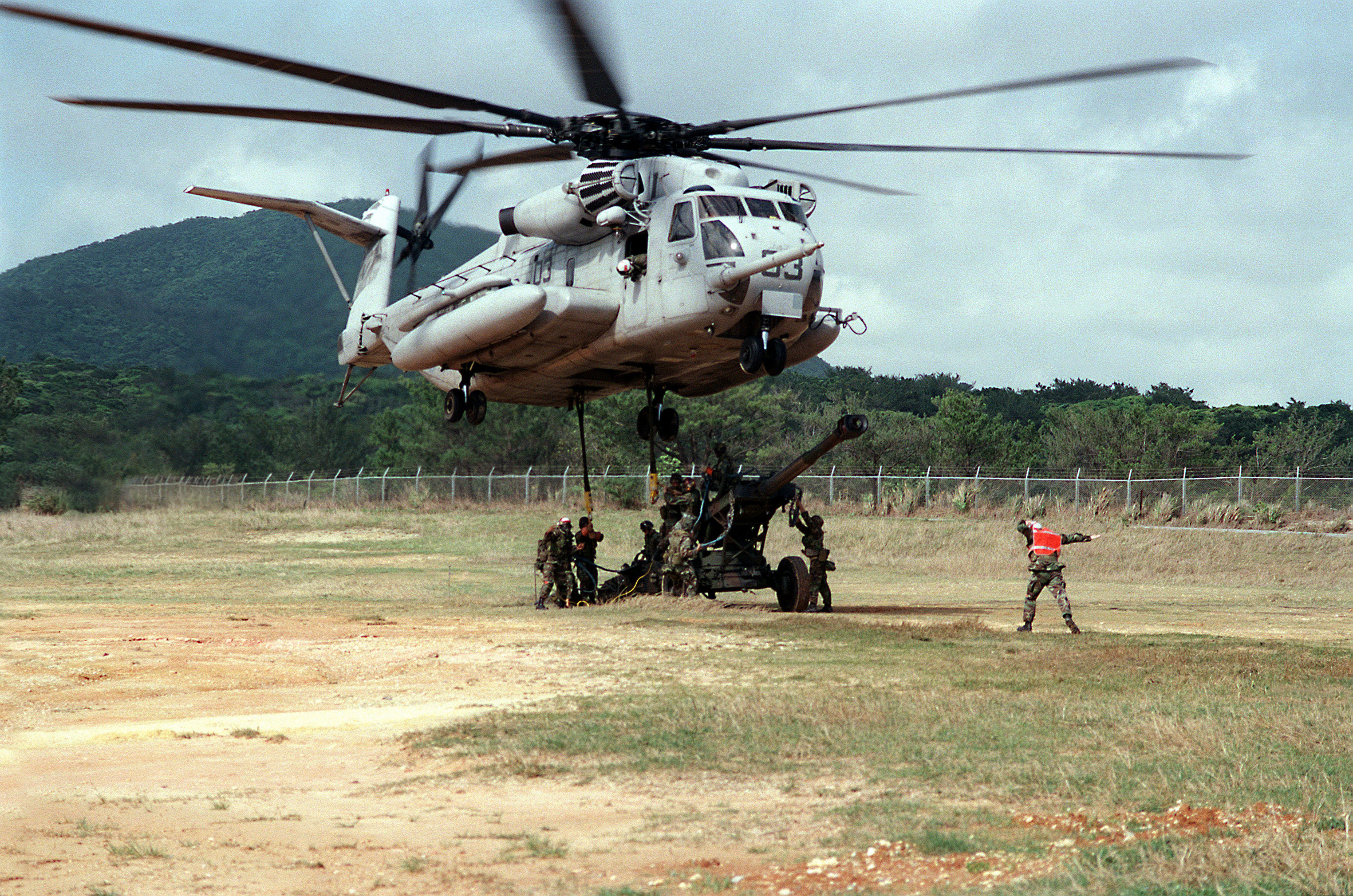 A HM-53E from the Heavy Marine Helicopter Squadron 361 (HMH-361), hovers over an M198 Howitzer while a Marine gun crew disconnects the lift lines at a landing zone, in the Central Training Area (CTA). From the Depart of Defense image search website - Defense Visual Information Center. Picture comes up if you search for HHMH-361 ID: DM-SD-00-01407 Service Depicted: Marines 990325-M-3518G-018 Date Shot: 25 Mar 1999